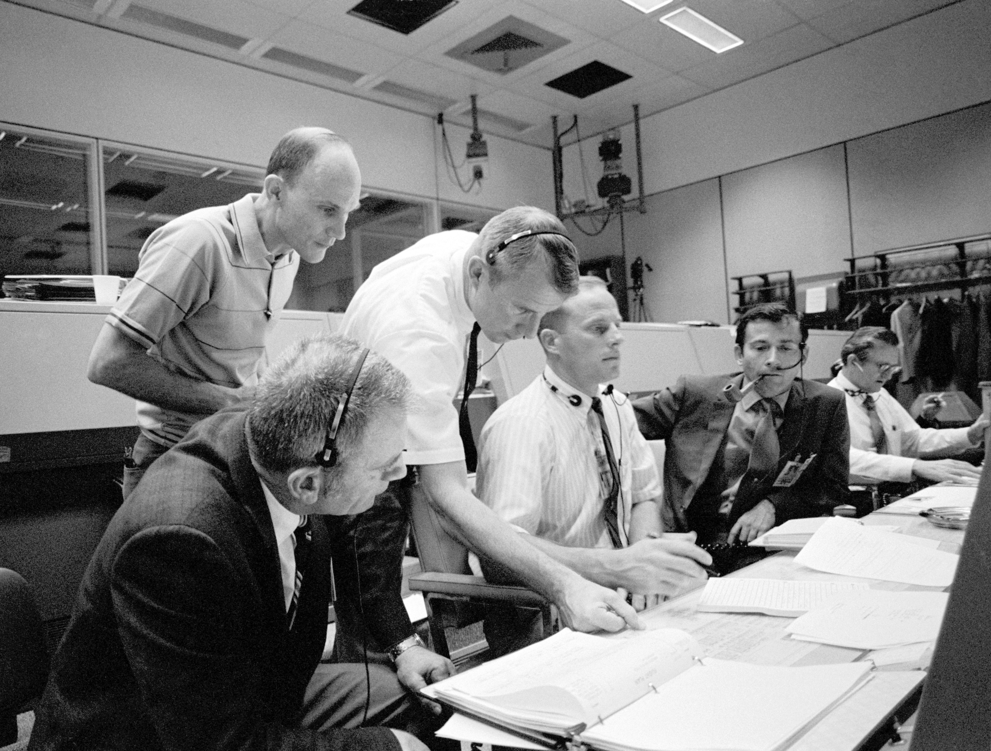 View of Mission Control Center during the Apollo 13 oxygen cell failure Several persons important to the Apollo 13 mission, at consoles in the Mission Operations Control Room of the Mission Control Center (MCC). Seated at consoles, from left to right, are Astronaut Donald K. Slayton, Director of Flight Crew Operations; Astronaut Jack R. Lousma, Shift 3 spacecraft communicator; and Astronaut John W. Young, commander of the Apollo 13 back-up crew. Standing, left to right, are Astronaut Tom K. Mattingly, who was replaced as Apollo 13 command module pilot after it was learned he may come down with measles, and Astronaut Vance D. Brand, Shift 2 spacecraft communicator. Several hours earlier crew members of the Apollo 13 mission reported to MCC that trouble had developed with an oxygen cell in their spacecraft.